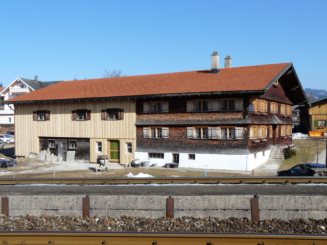 Oberstaufen museum 'Beim Strumpfar', museum of local life in Oberstaufen (Allgäu)